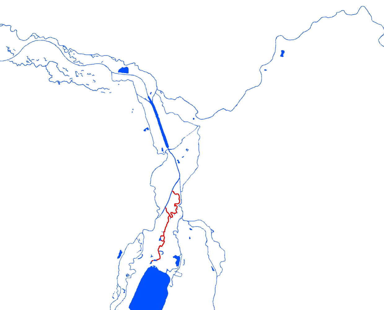 The Waterknot of Leipzig with the Paußnitz (in red)